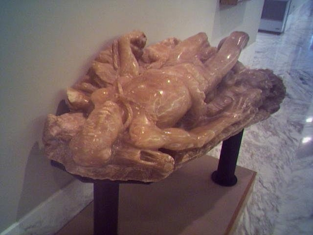 San Vicente Mártir. Sculpture in the Museum if Fine Arts in València